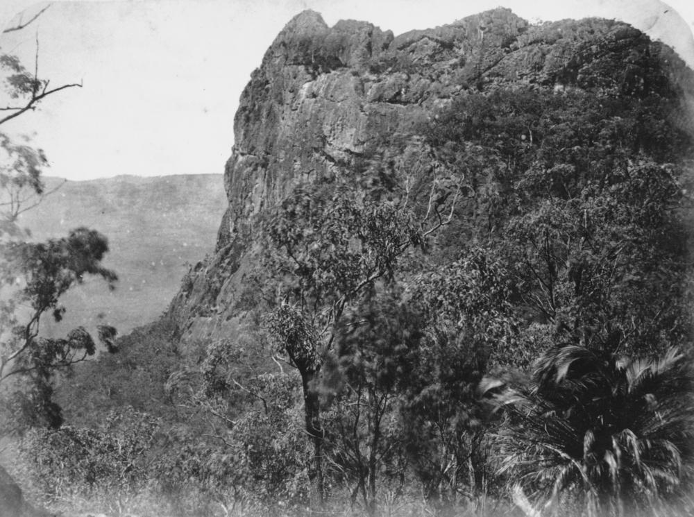 Mount Brazenose in the Carnarvon Range, 1877